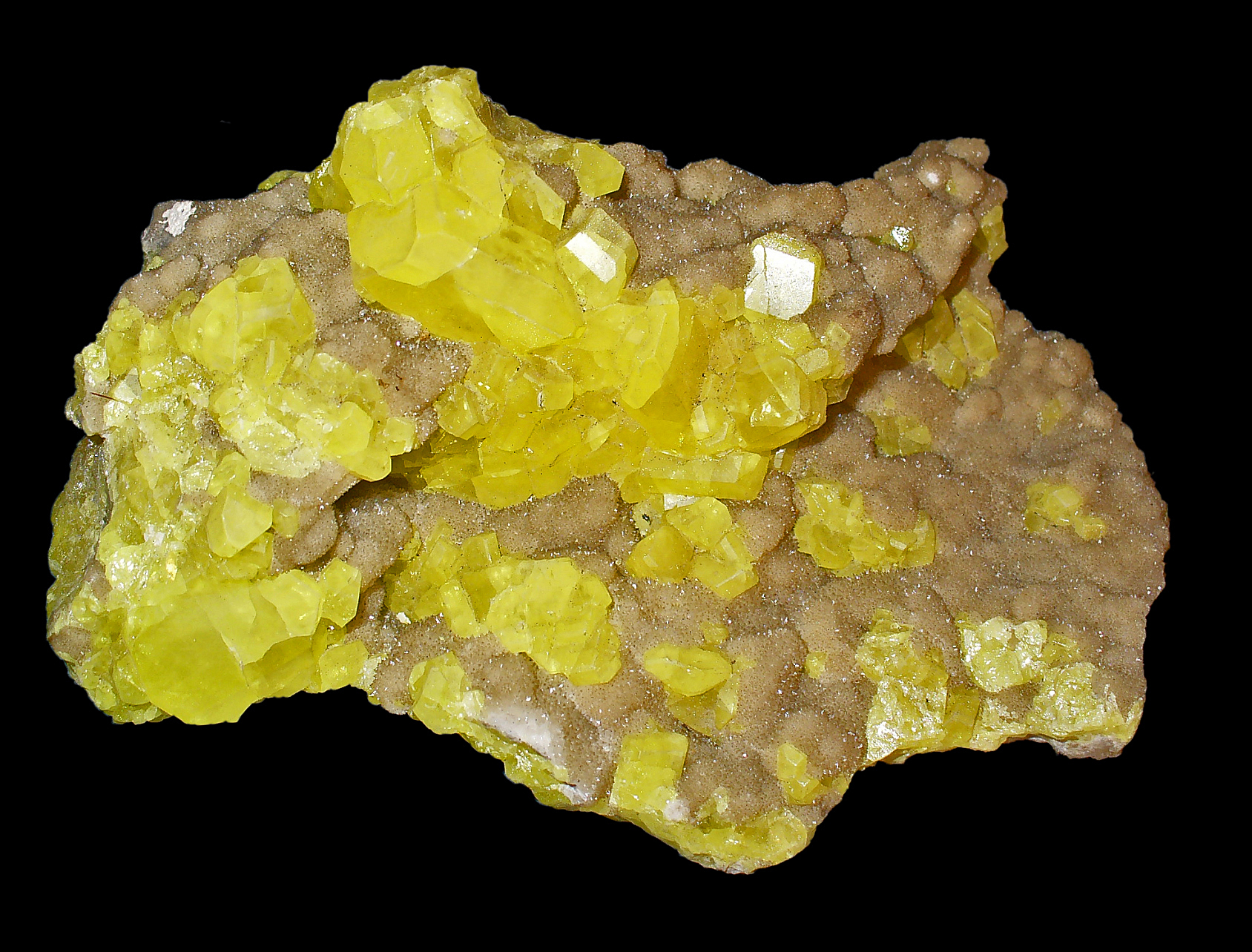 Sulfur, S; Agrigento, Sicily; Collection of the Institute of Mineralogy, University Tübingen. Used in homeopathy as remedy: Sulfur / Sulphur (Sulph.)